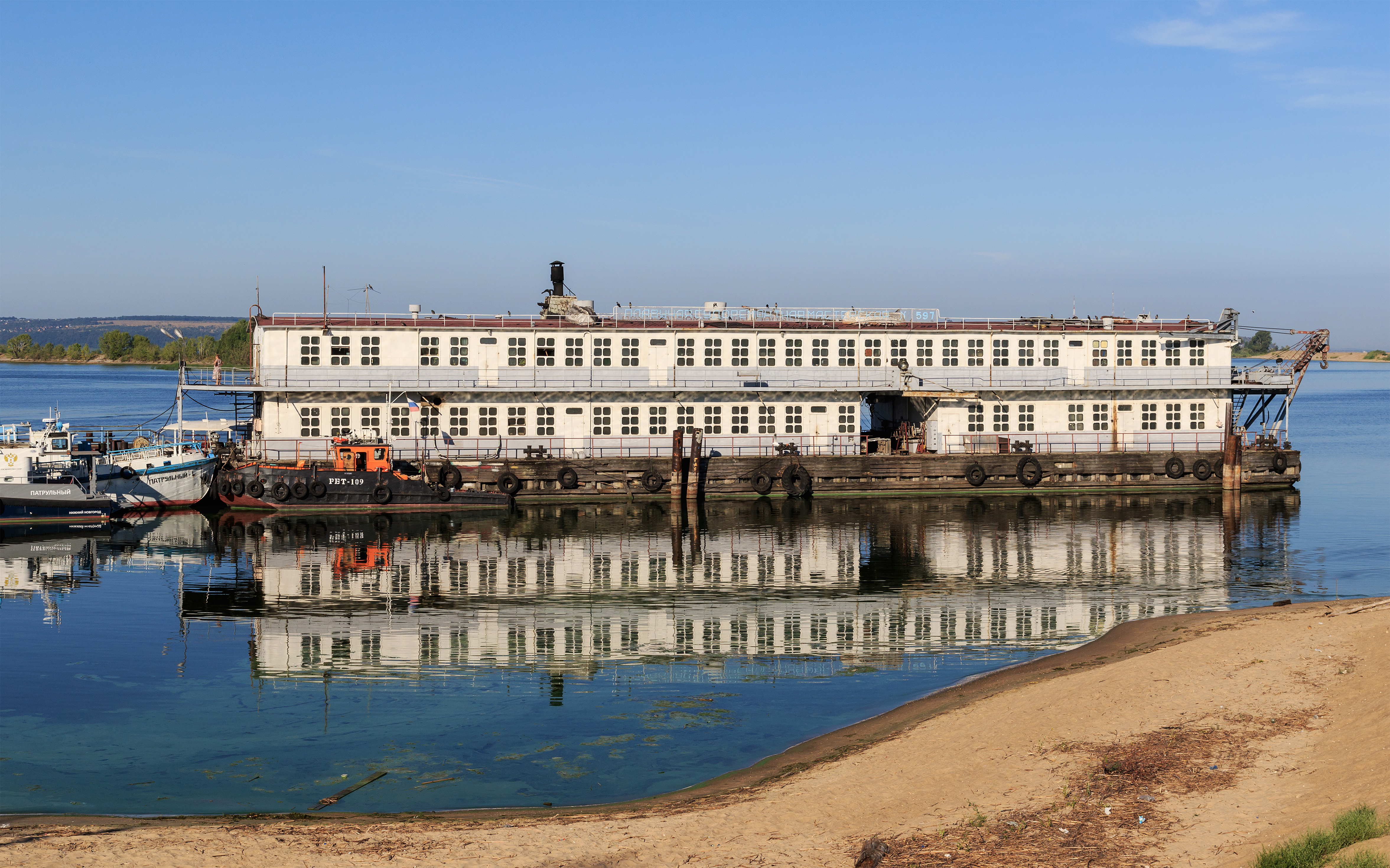 Floating dockyard at the Volga in Kazan, Russia